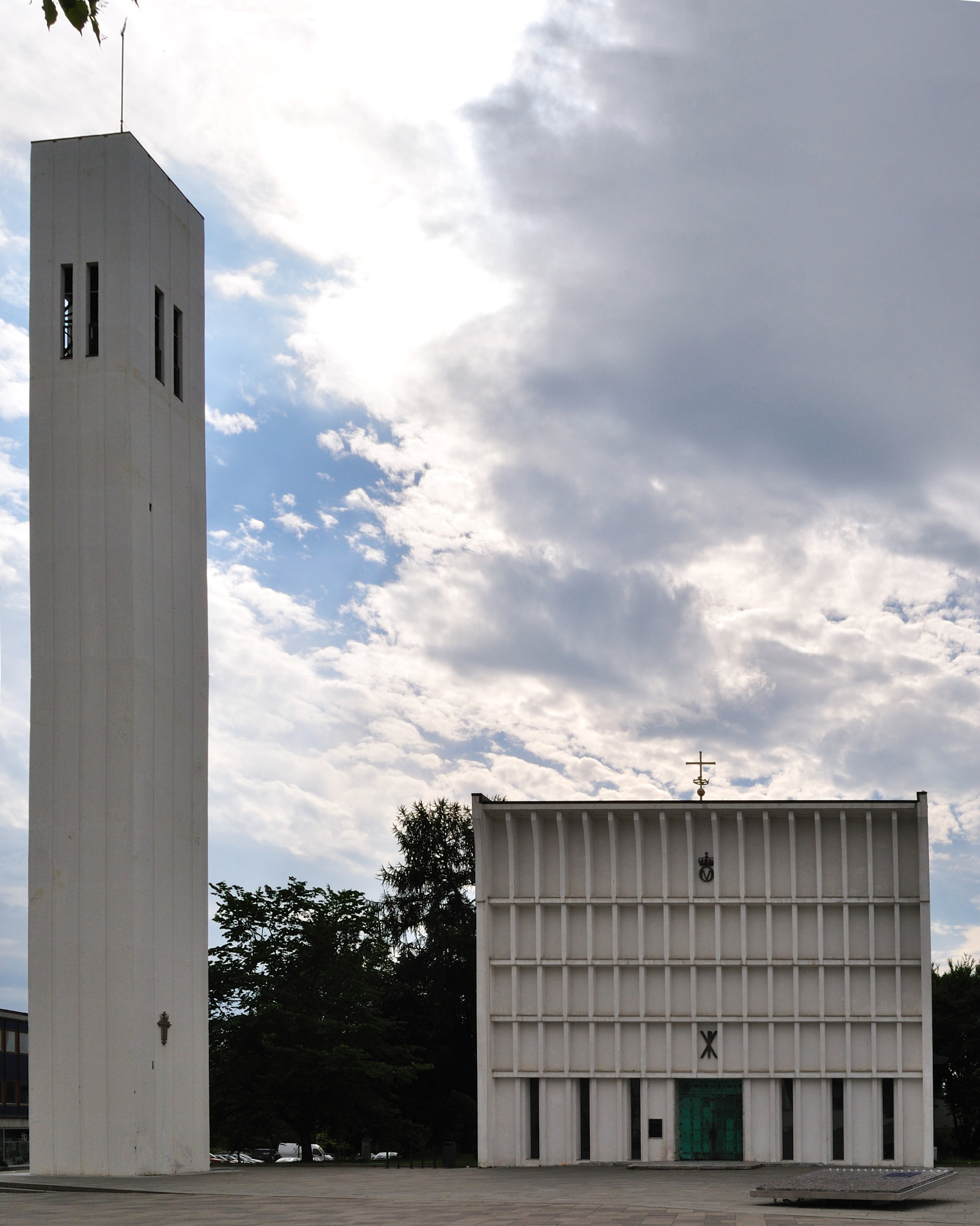 Steinkjer Church in Steinkjer, Nord-trøndelag.